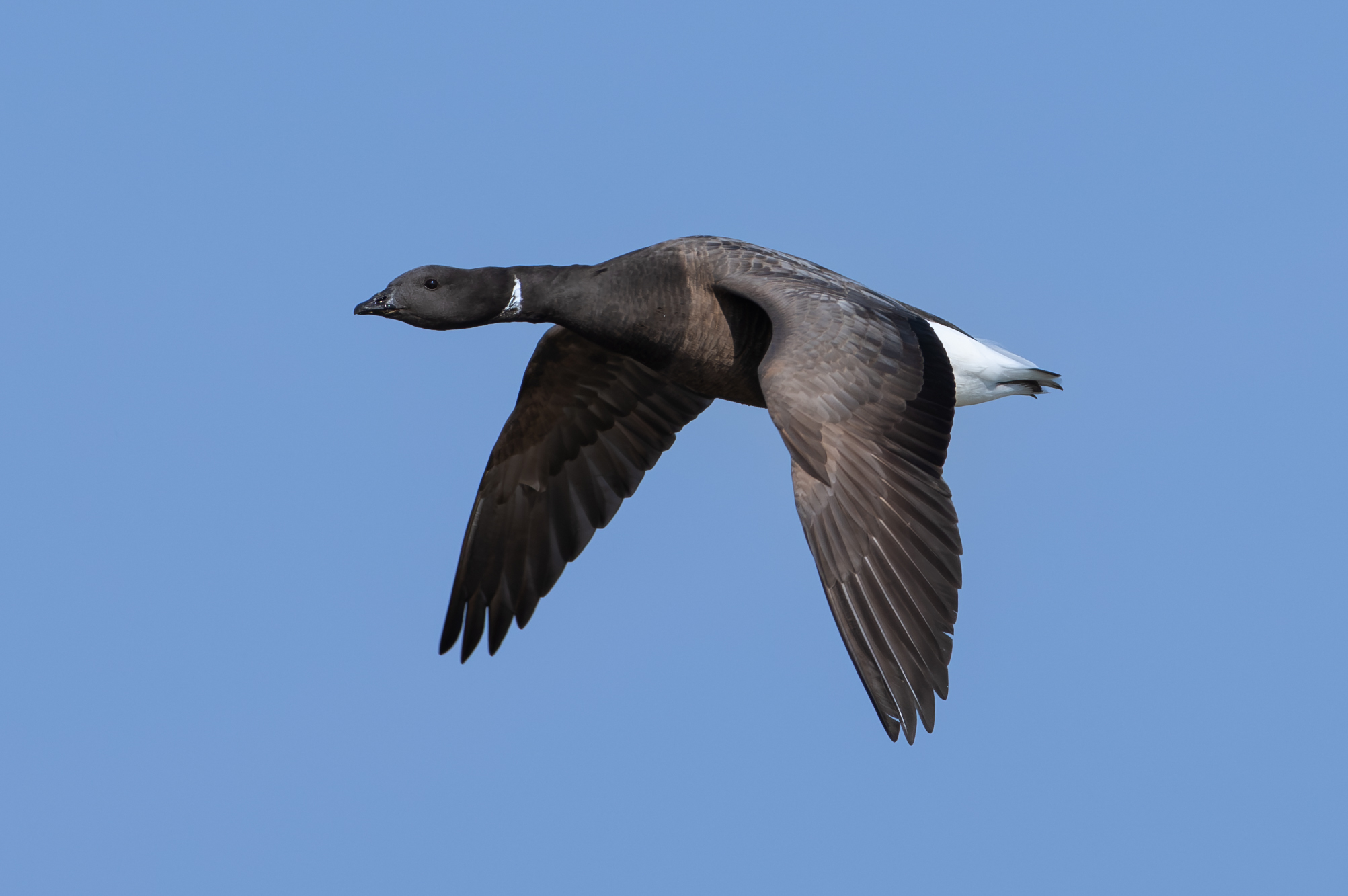 Adult dark-bellied Brent Goose (Branta bernicla bernicla) in flight, Northern German island Amrum